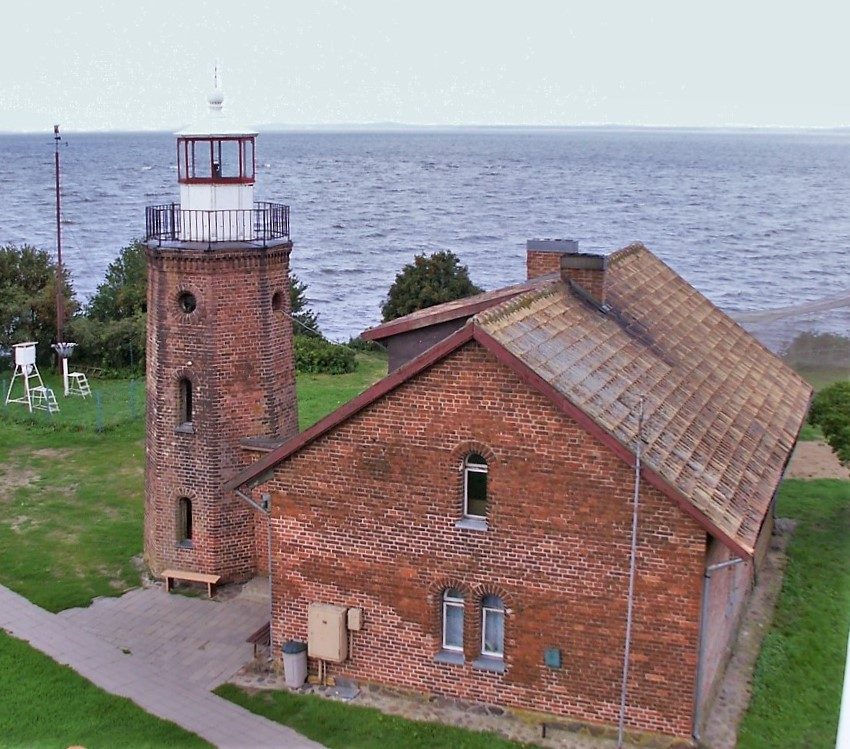 Cape Vente lighthouse